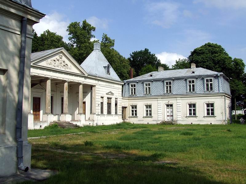 Warsaw, Bruhl's pallace in Mlociny